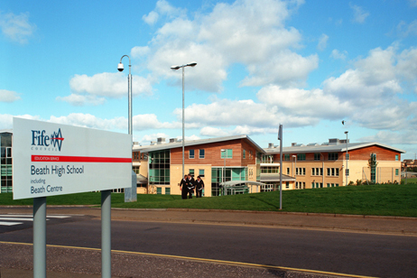 View of Beath High School